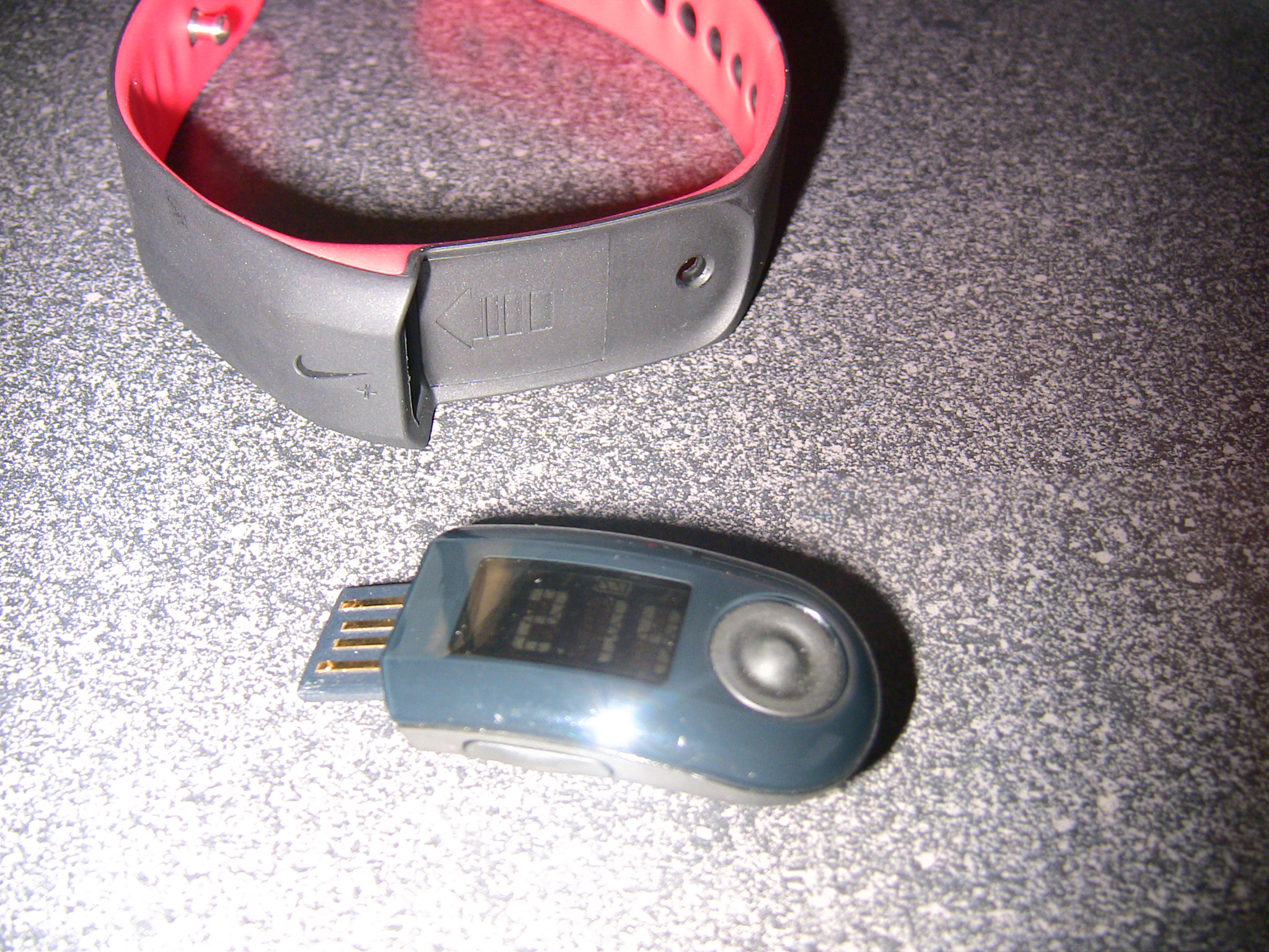 Nike Plus Product